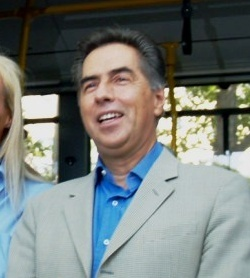 Mayor of Thessaloniki and former track champion Vasilis Papageorgopoulos.